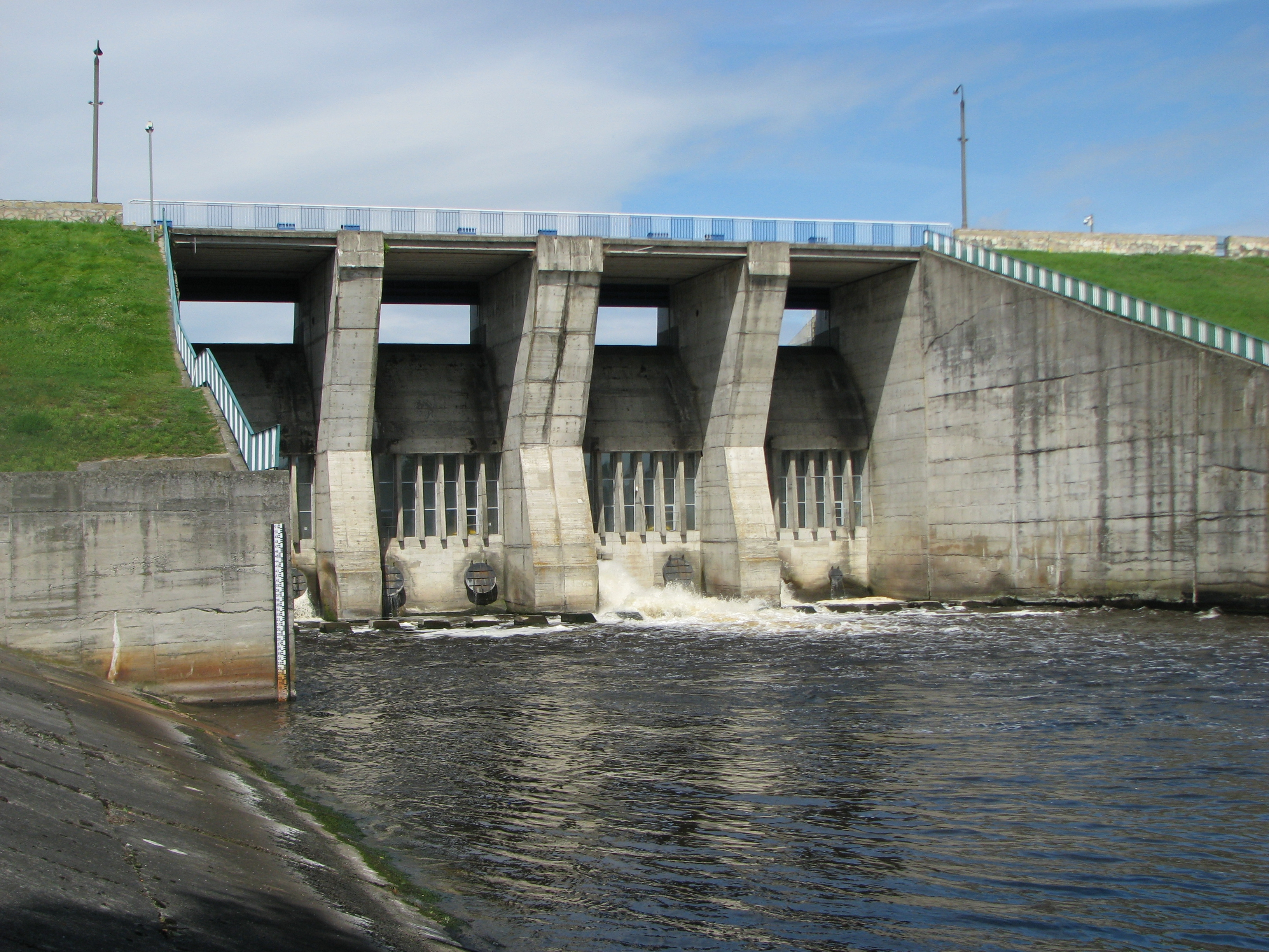 Chańcza dam on Czarna Staszowska River, Poland (back).